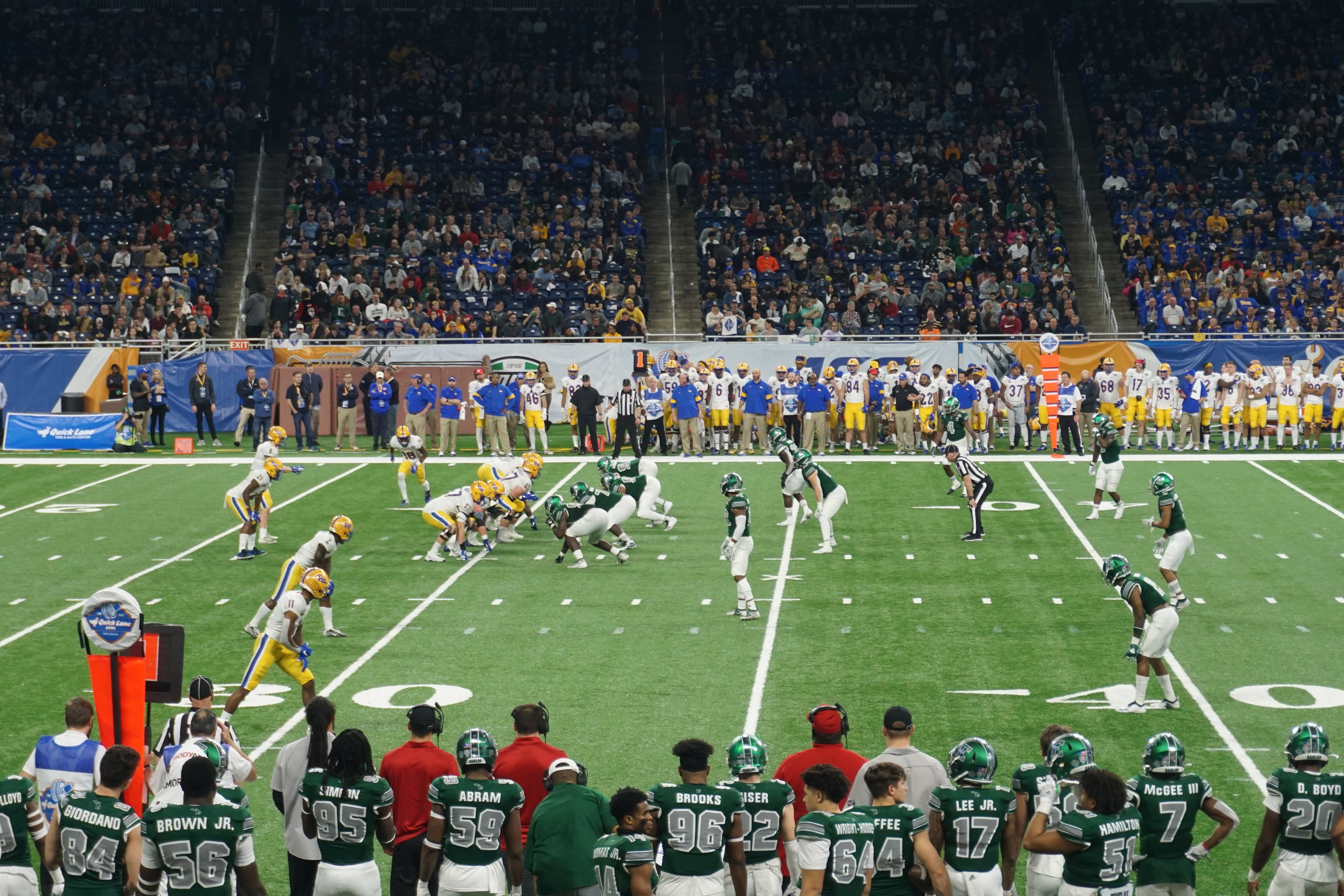 Pittsburgh on offense during the 2019 Quick Lane Bowl (Pittsburgh Panthers vs. Eastern Michigan Eagles) at Ford Field in Detroit, Michigan (United States). Pittsburgh won 34–30.